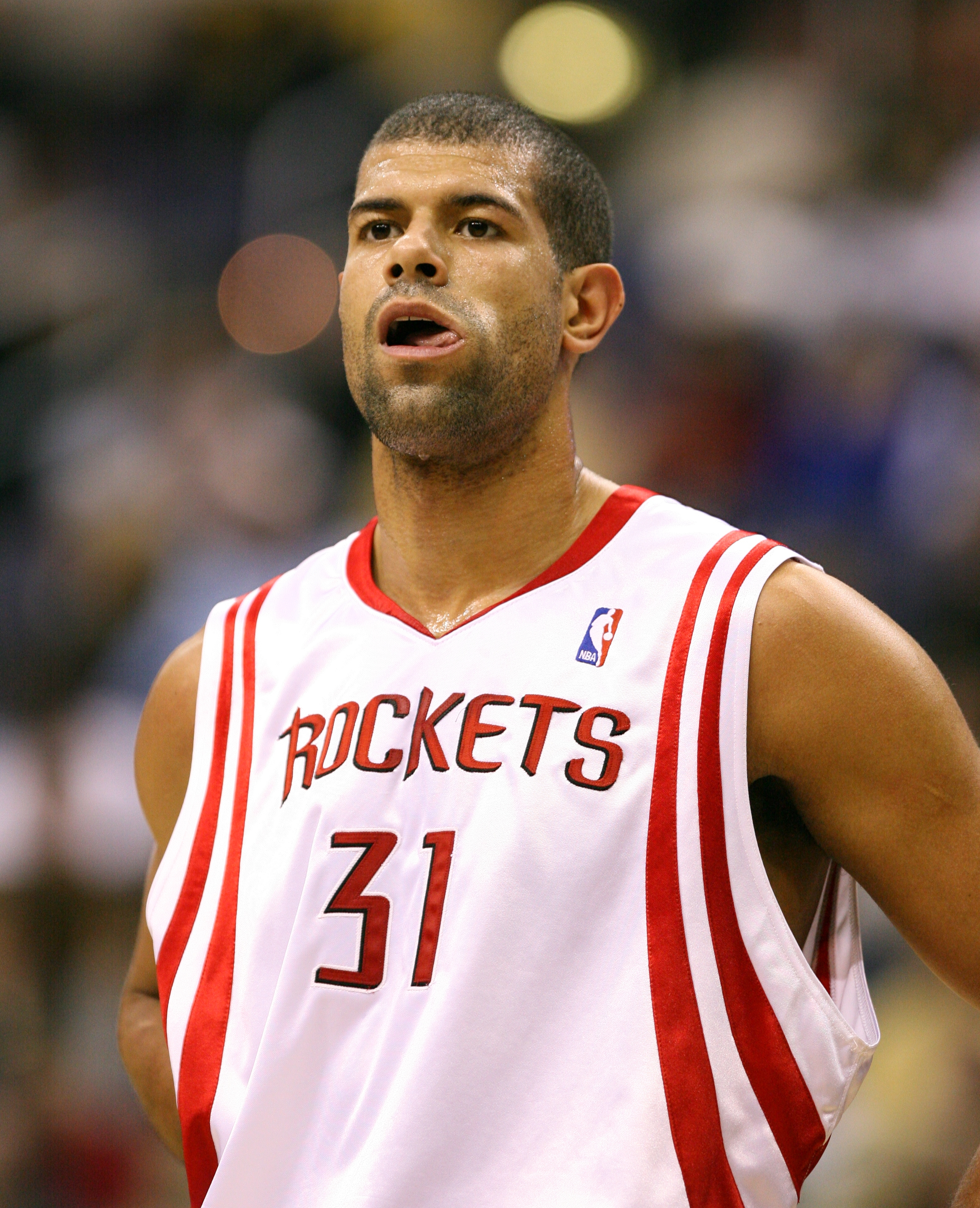 Shane Battier of the Houston Rockets of the National Basketball Association (NBA)